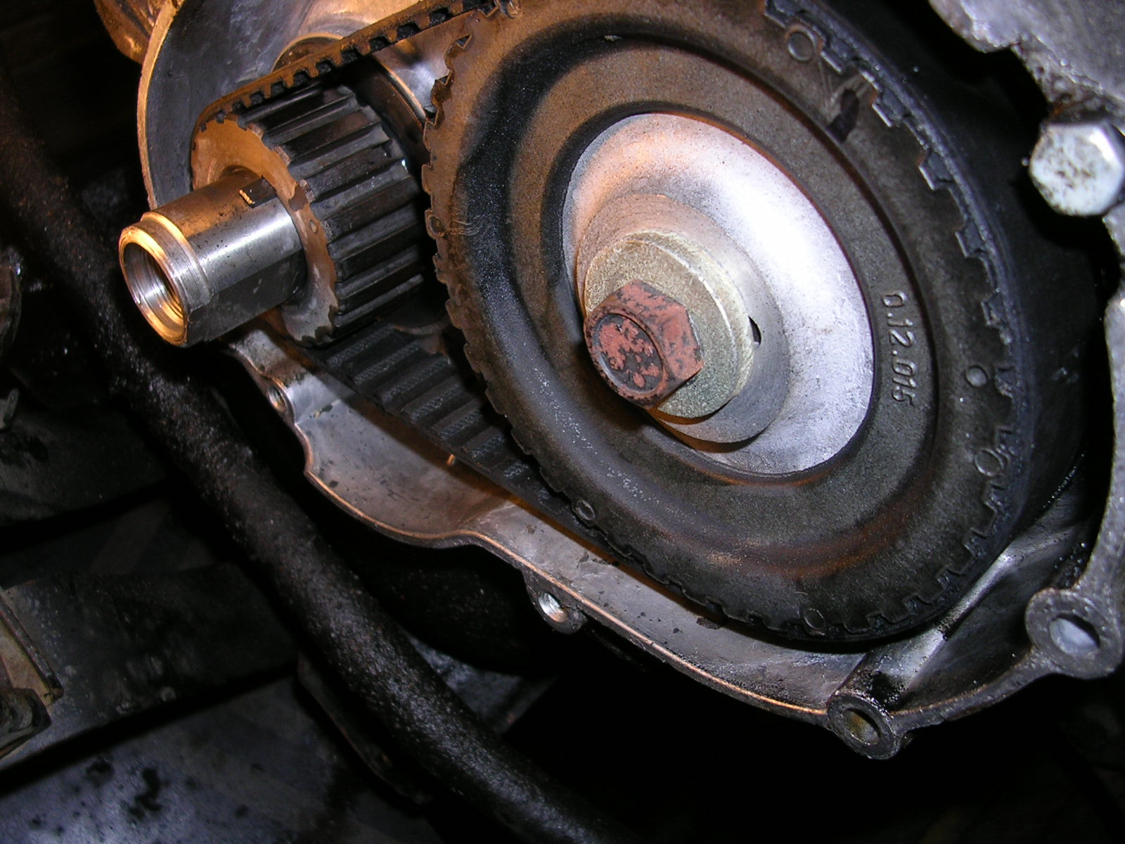 Pushrod engine's typically short timing belt, from a FSO Polonez. Modern engines are usually overhead camshaft-engines (OHC), with different placement of camshaft relative to crankshaft and therefore more longer timing belt.